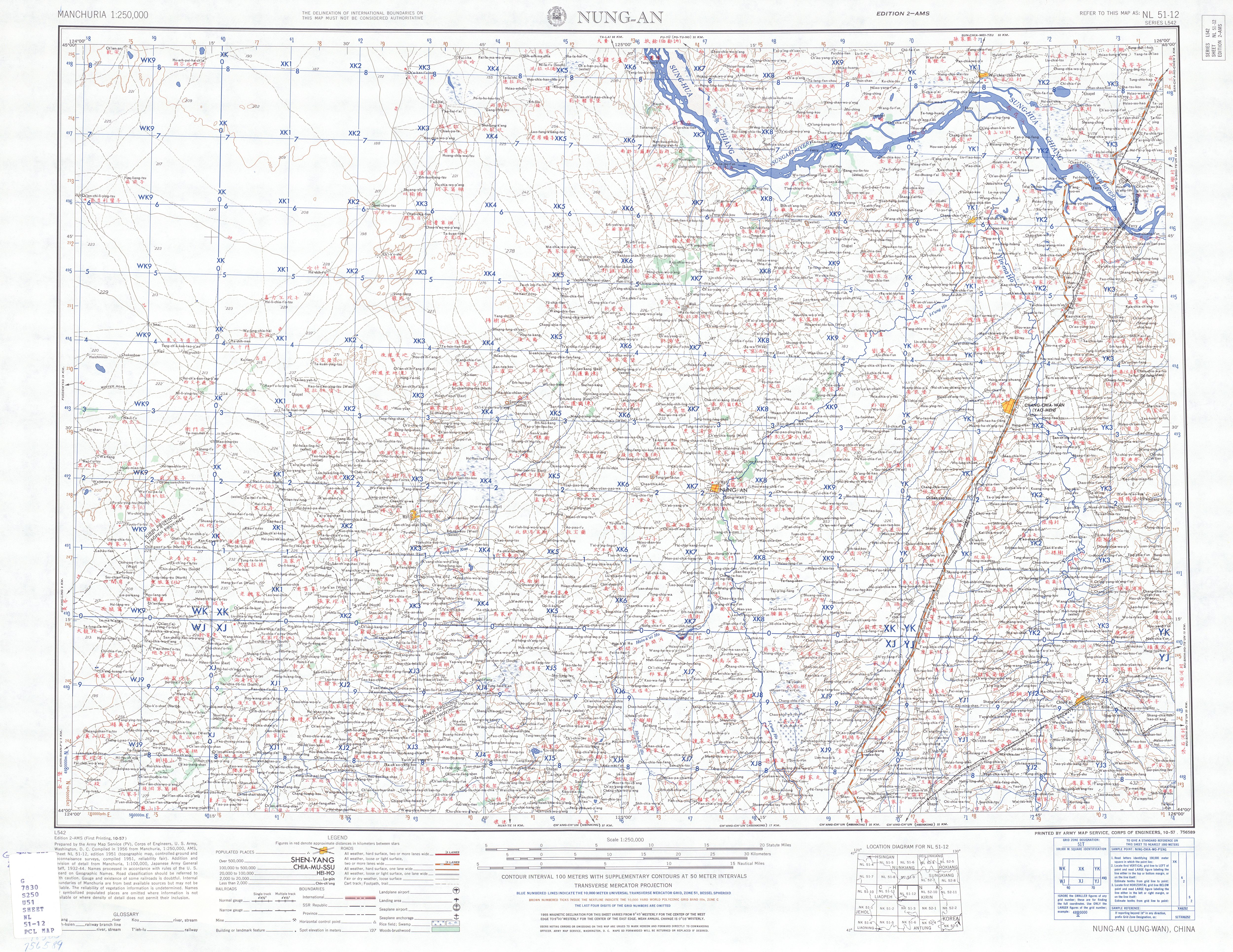 Manchuria AMS Topographic Maps